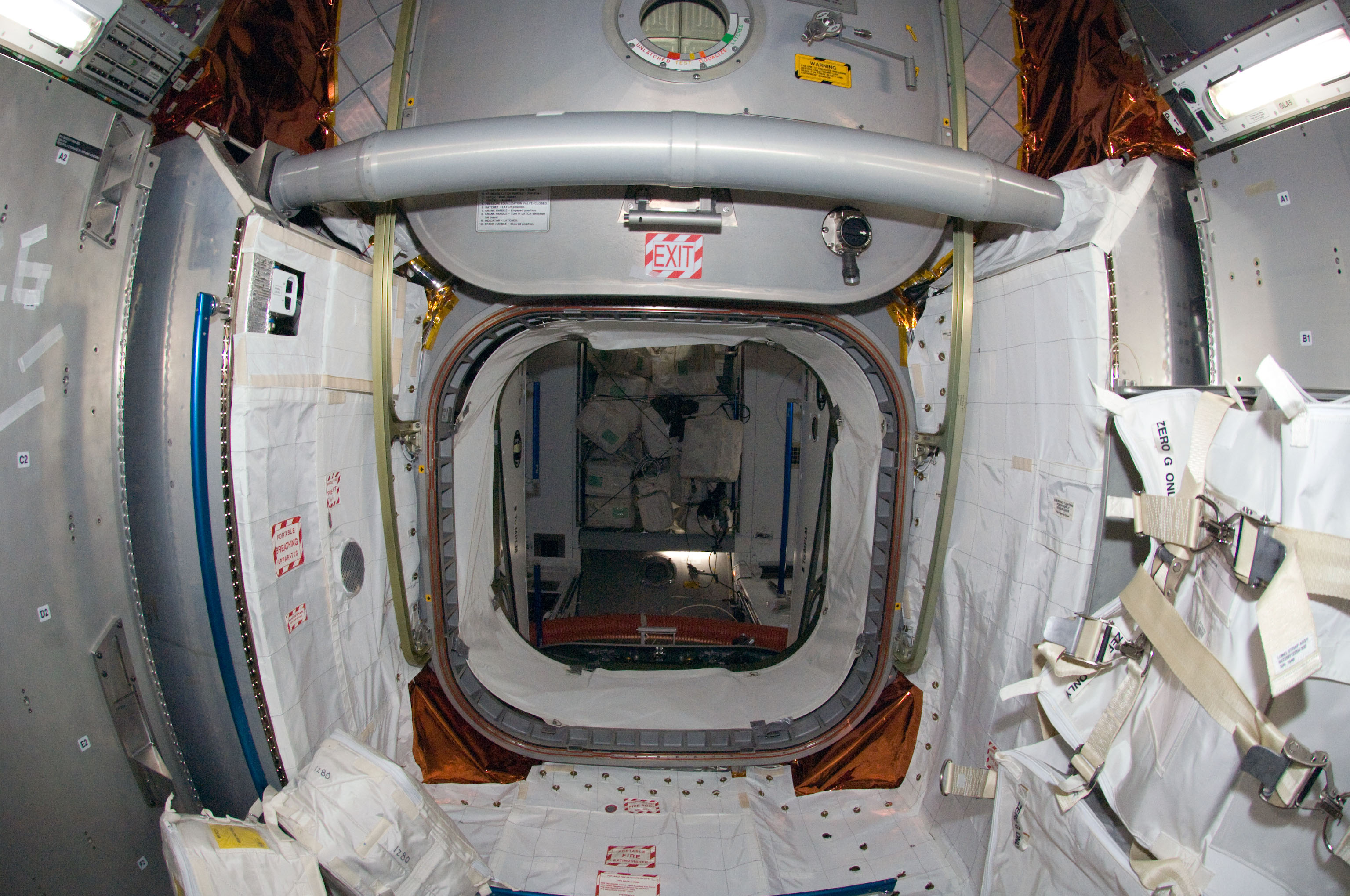 Interior view of the Leonardo Multi-Purpose Logistics Module attached to the Earth-facing port of the International Space Station's Harmony node. Leonardo was moved from Space Shuttle Endeavour's cargo bay and linked to the station on Nov. 17, carrying two water recovery systems racks for recycling urine into potable water, a second toilet system, new gallery components, two new food warmers, a food refrigerator, an experiment freezer, combustion science experiment rack, two separate sleeping quarters and a resistance exercise device (aRED) that allows station crewmembers to perform a variety of exercises.